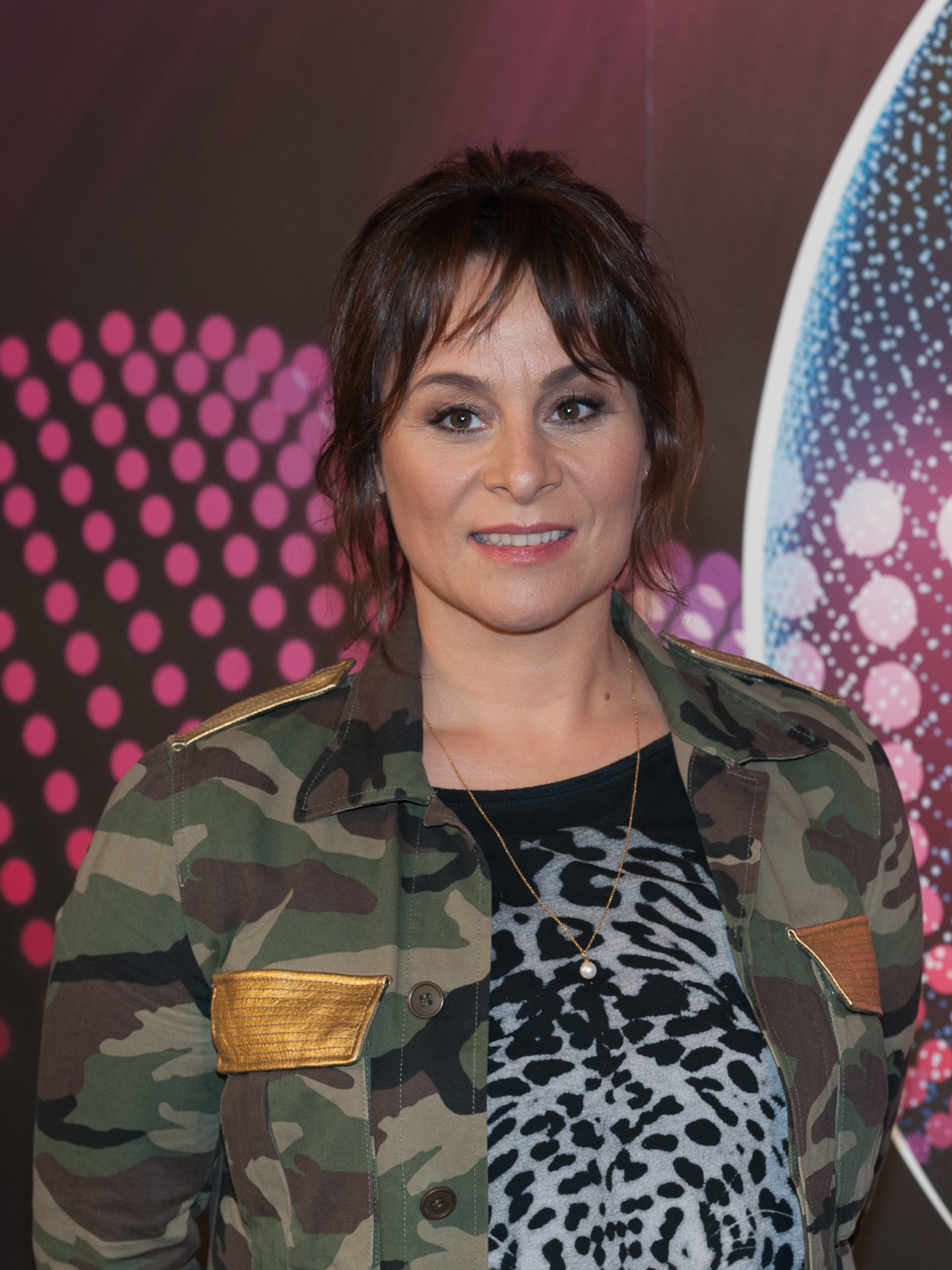 Eurovision Song Contest Vienna 2015: Trijntje Oosterhuis